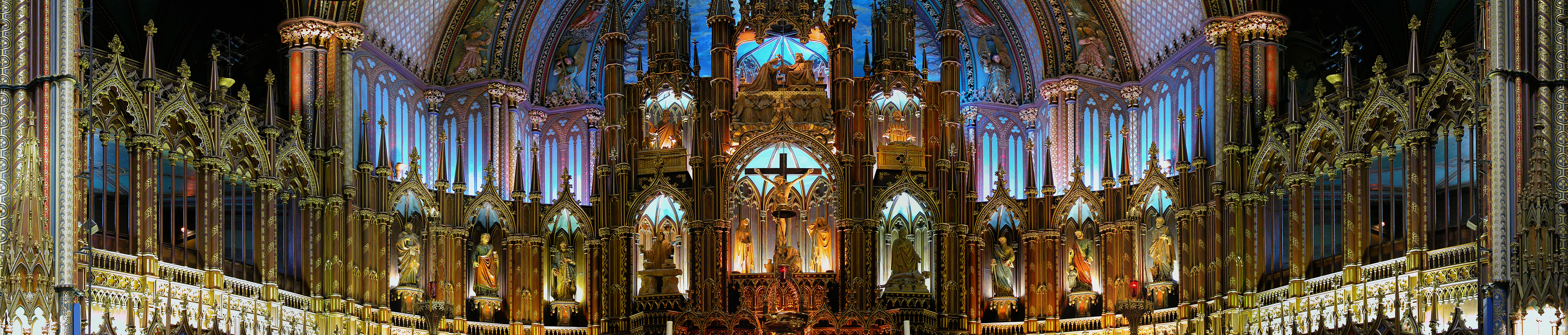 View of Notre-Dame Basilica in Montreal. Taken by (c) Jean-Pierre Lavoie